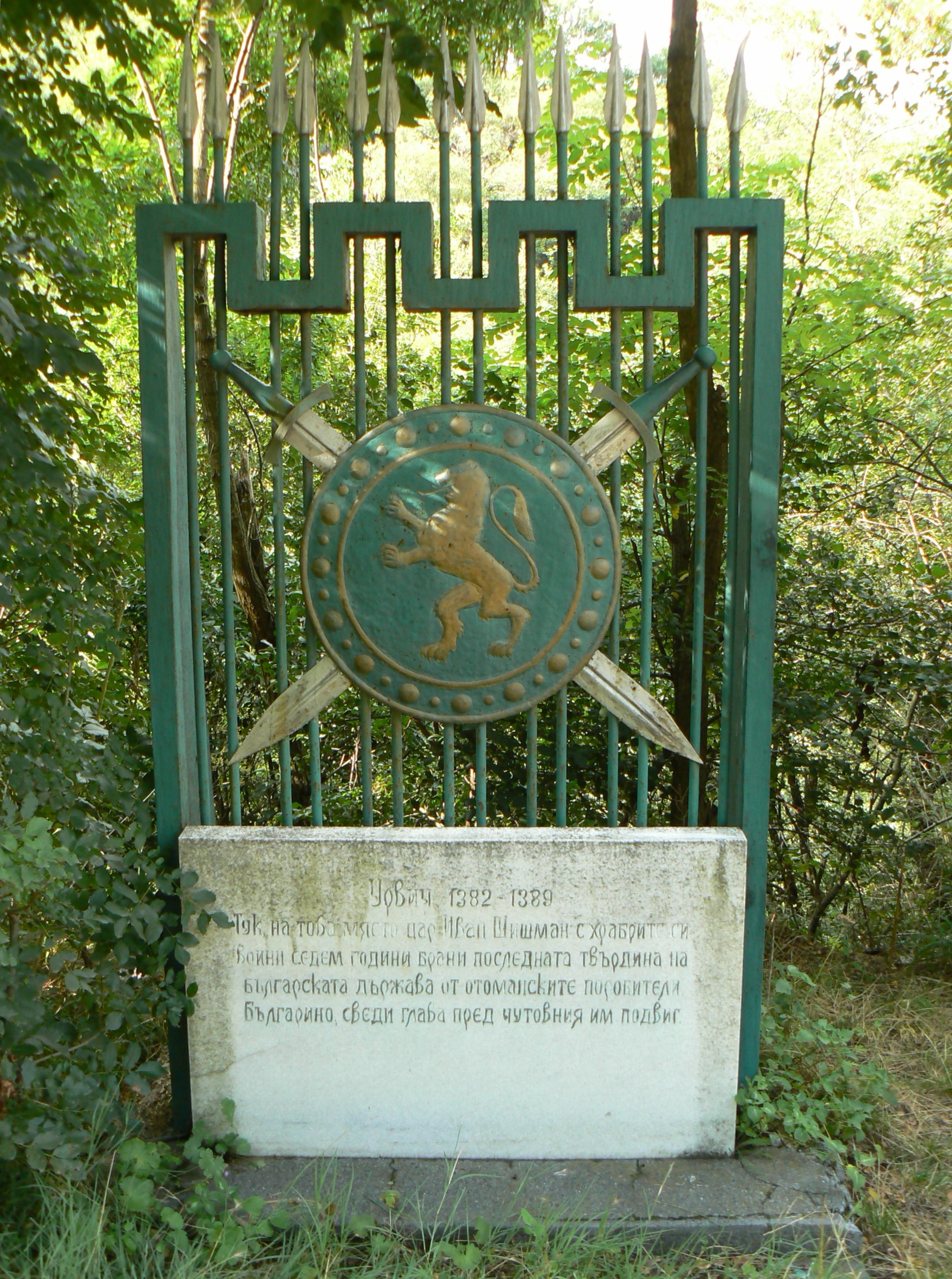 The memorial on the road near the Kokalyane Urvich Fortress